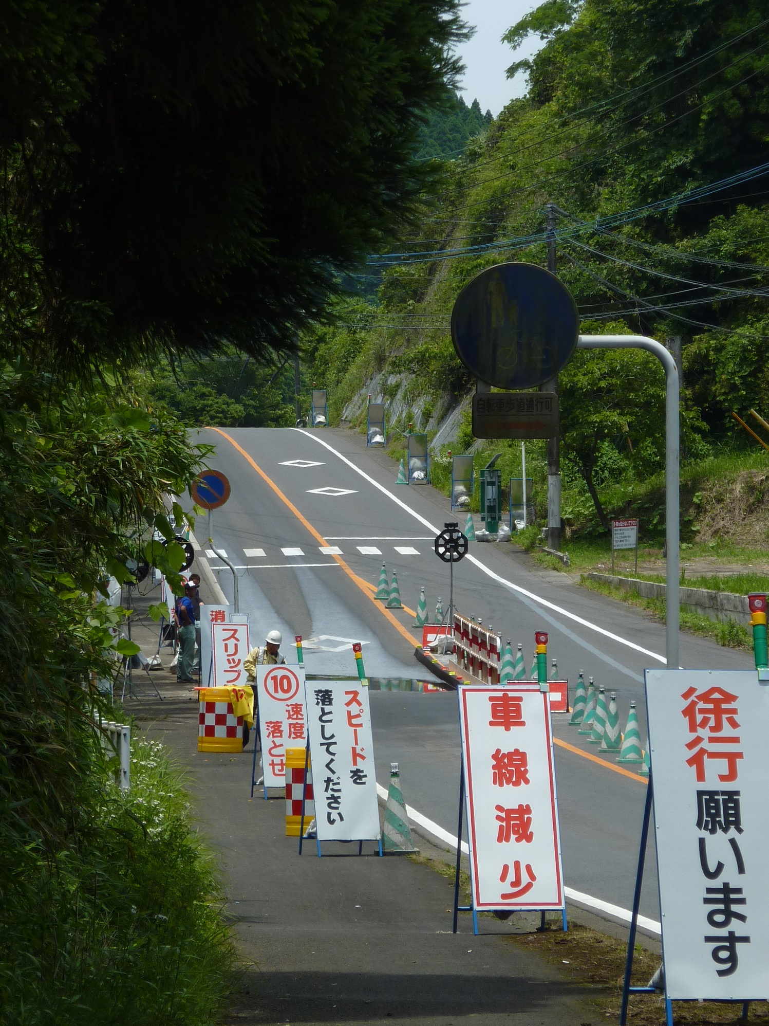 The Disinfection Point for FMD in the National Route 269 (Yamanokuchi, Yamanokuchi-cho, Miyakonojo City, Miyazaki Prefecture, Japan).